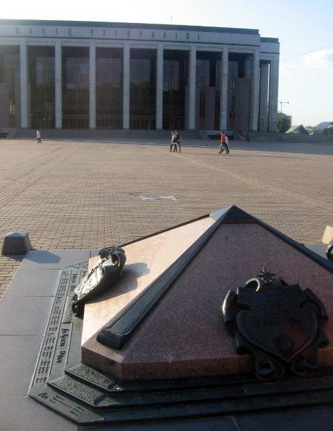 October Square, Minsk. August 3.